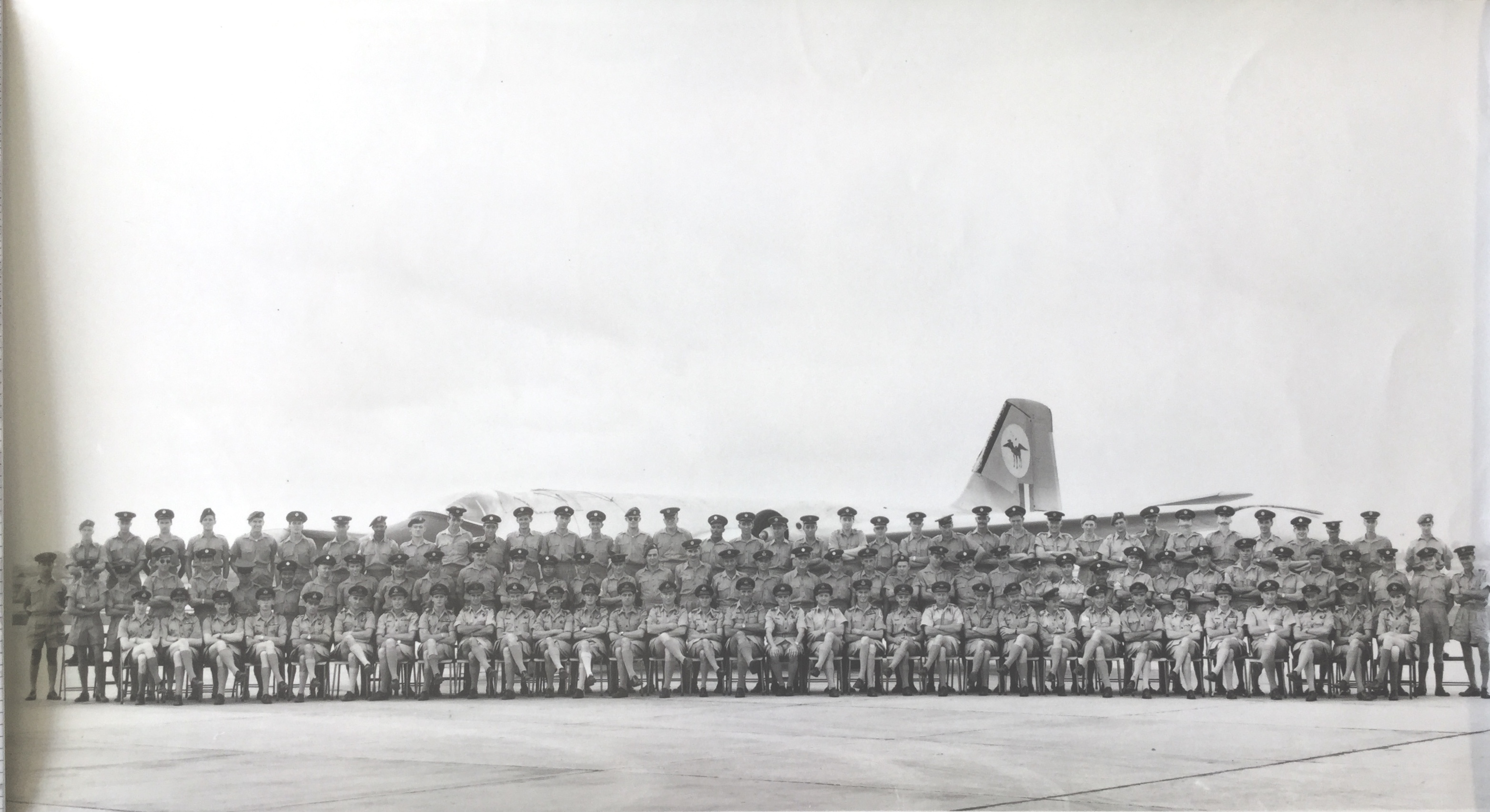 45 Sqn at RAF Tengah 1961 Singapore